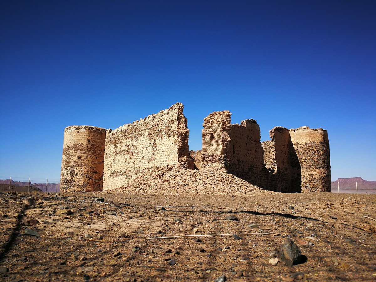 Fort in al-Ula